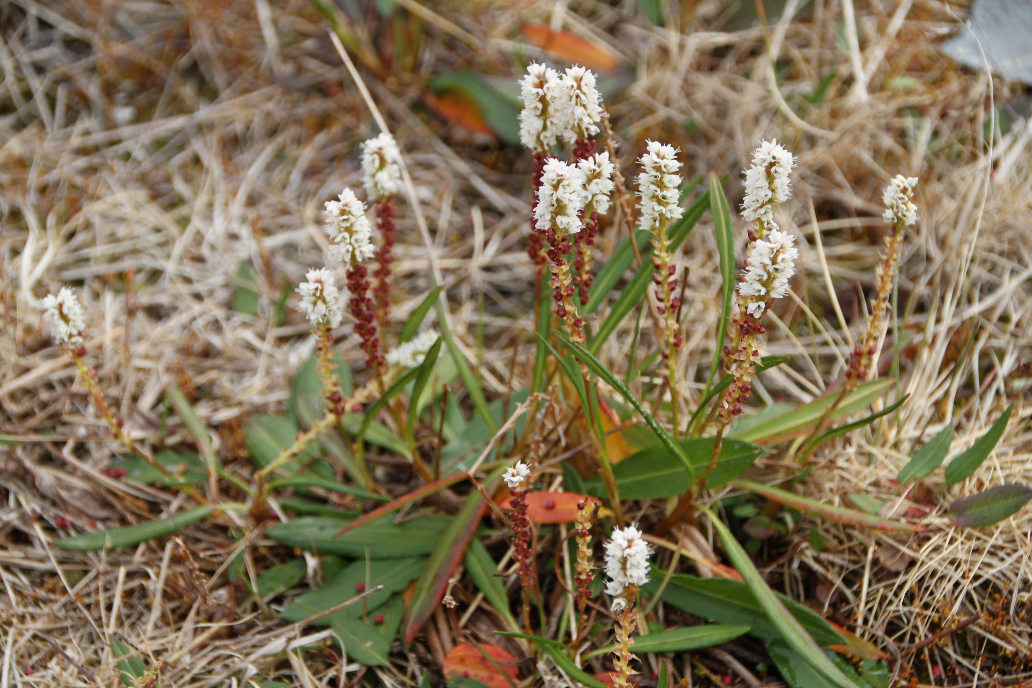 Flower in the former russian city of Pyramiden at Spitsbergen, Svalbard.